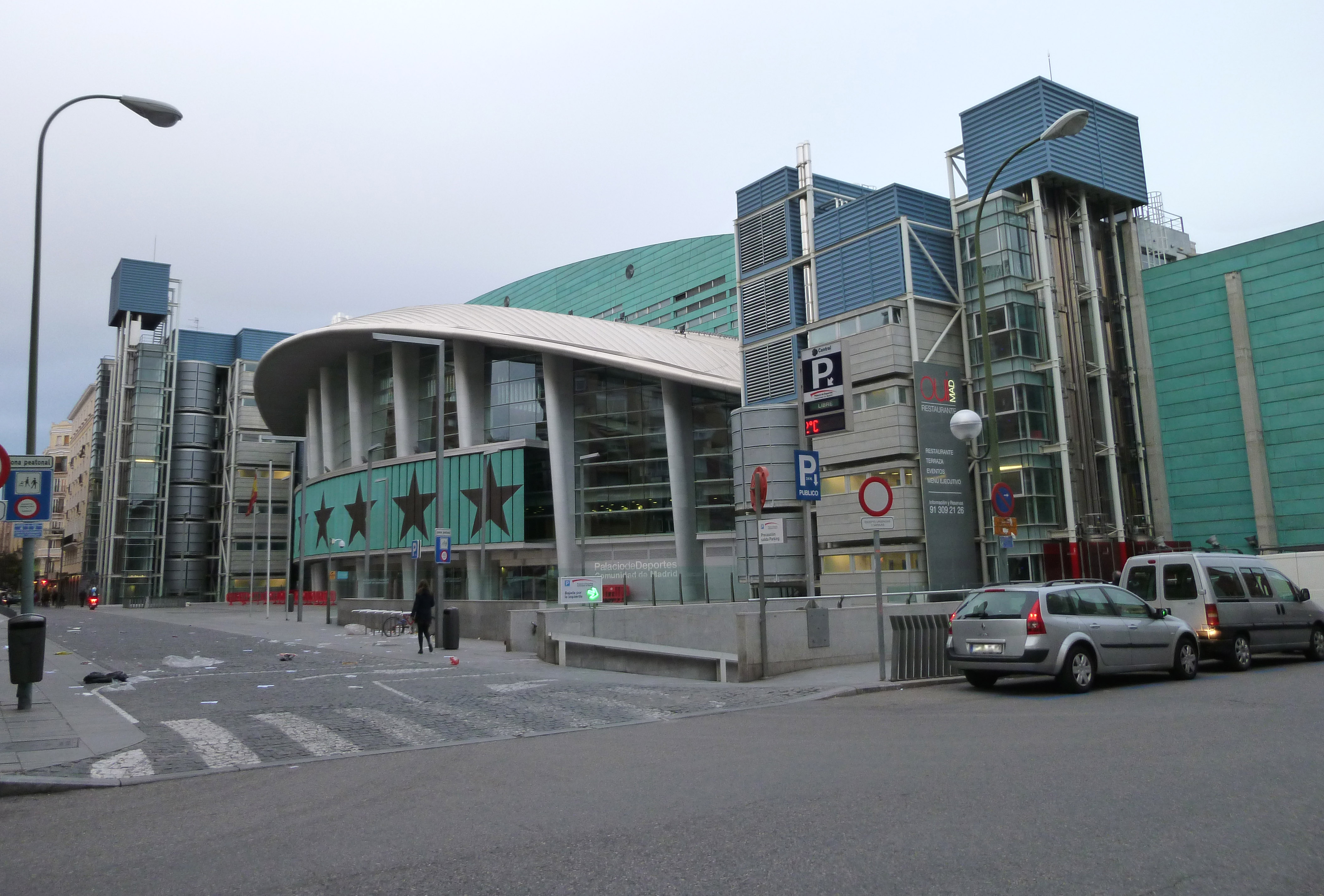 West façade (Calle Lombia, street) of Palacio de Deportes de la Comunidad de Madrid (Madrid, Spain).